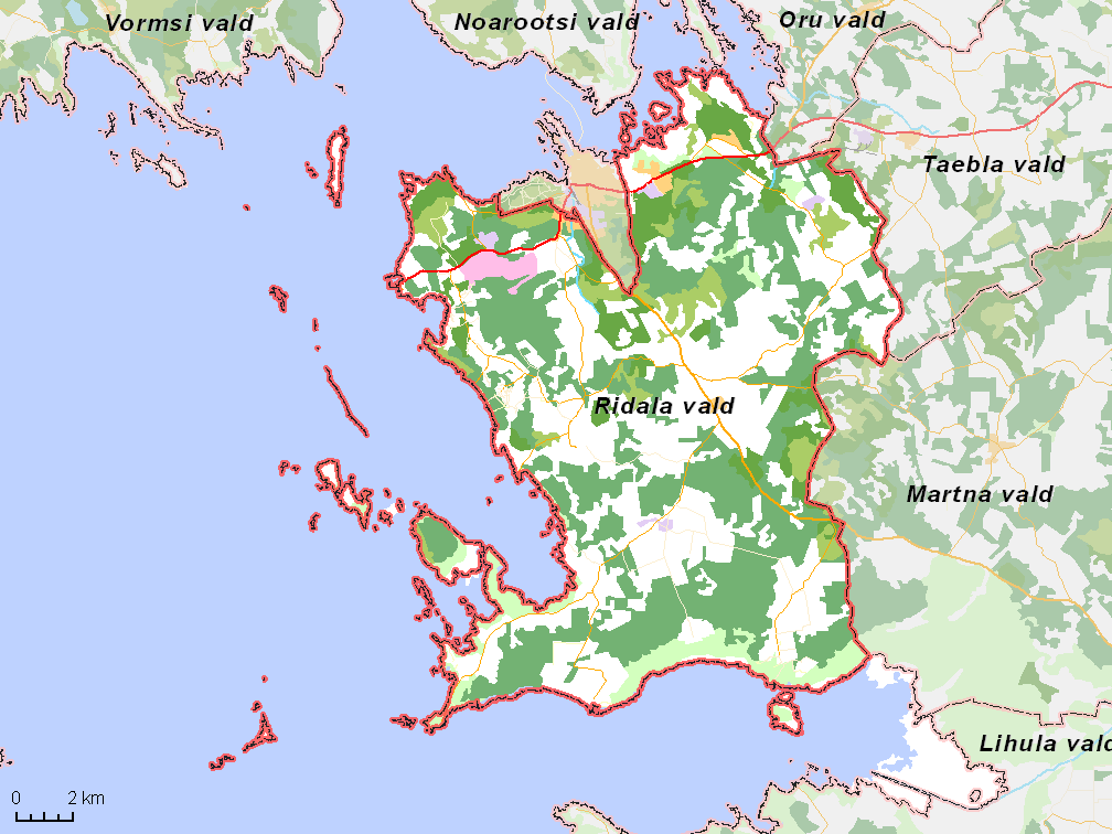 Map of municipality in Estonia